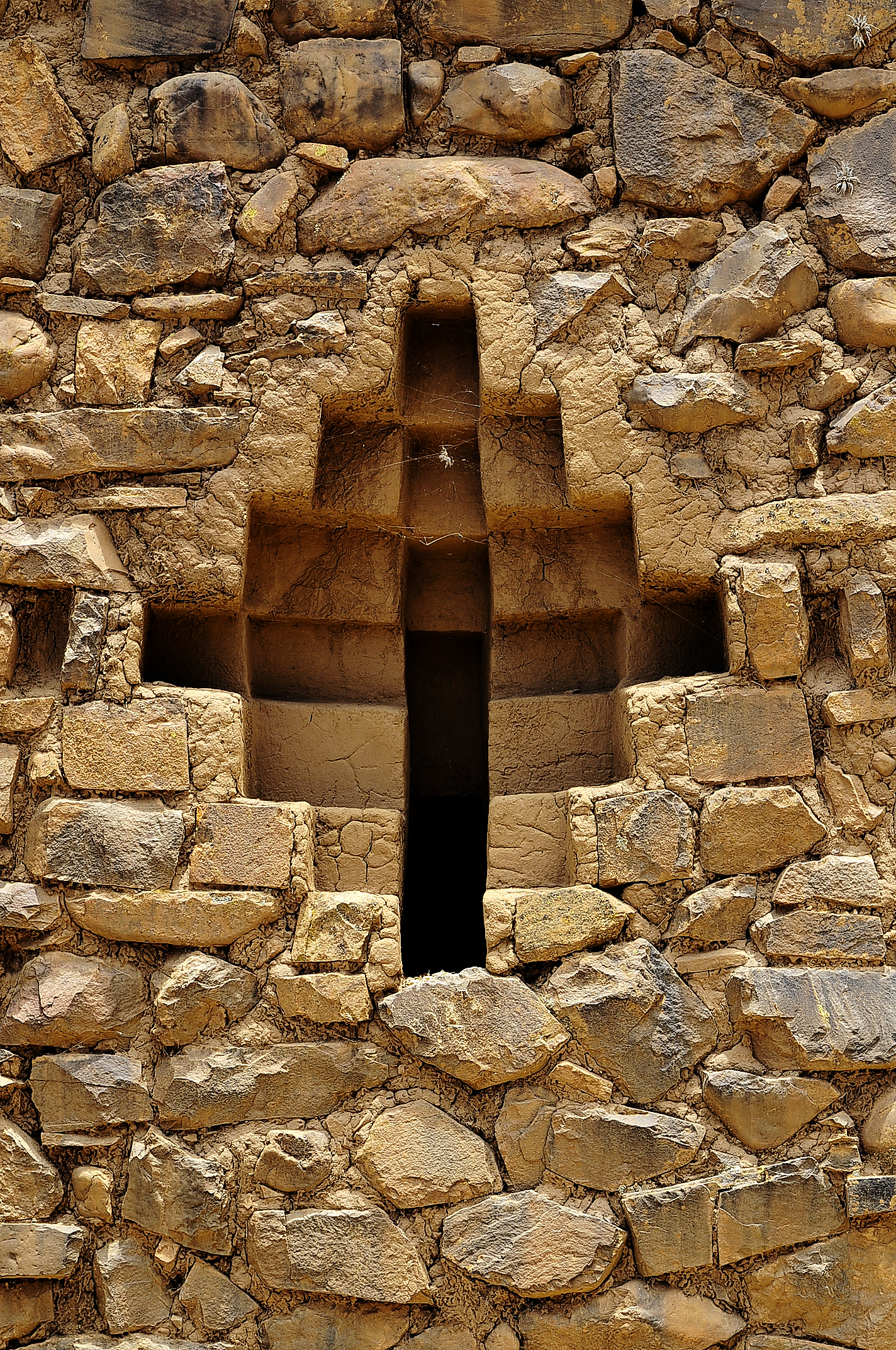 A window of the Iñaq Uyu (Virgins Temple), Moon Island (Koati Island), Lake Titicaca, Bolivia